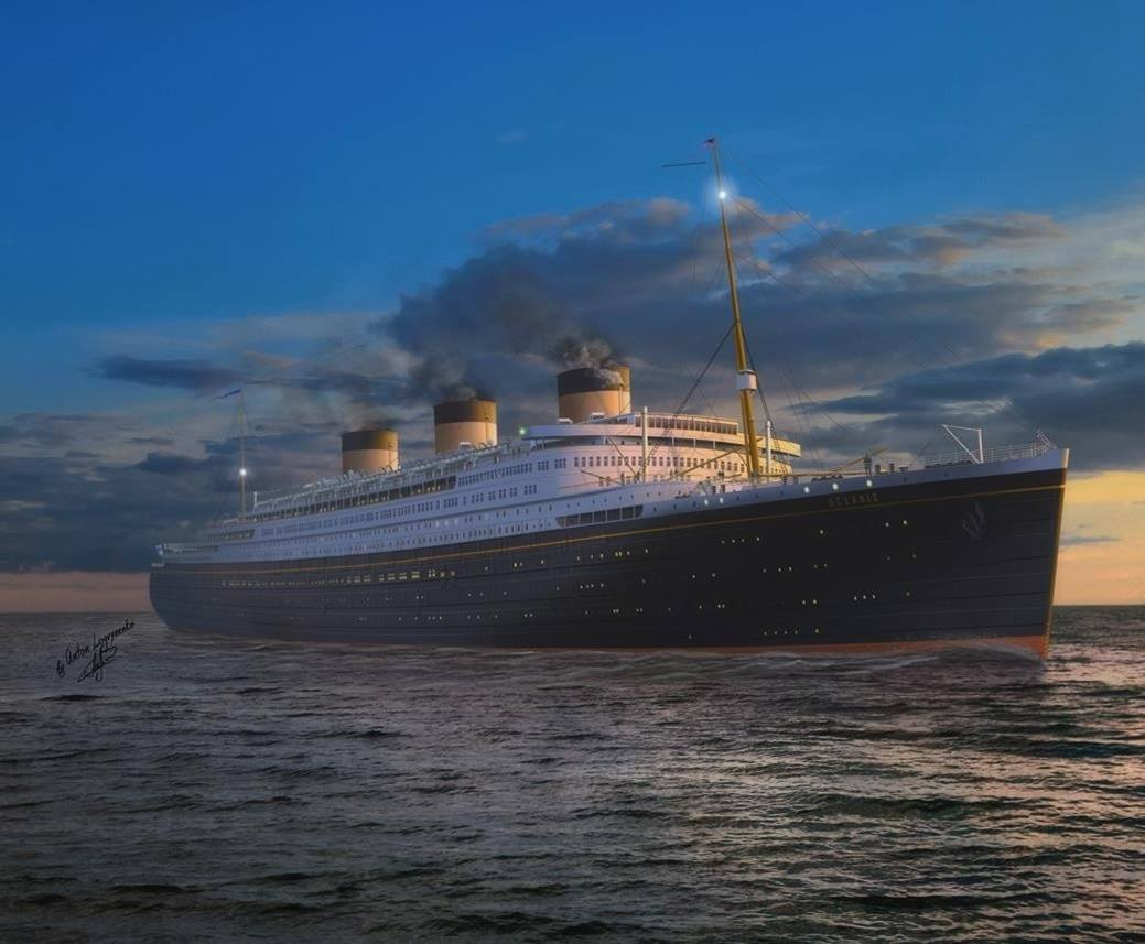 My digital drawing represent the RMMV Oceanic III